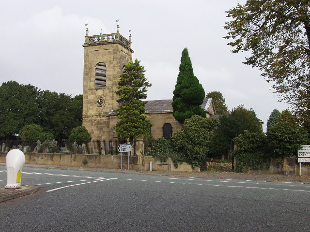 Parish church of SS Marcella and Deiniol, Marchwiel, Wales